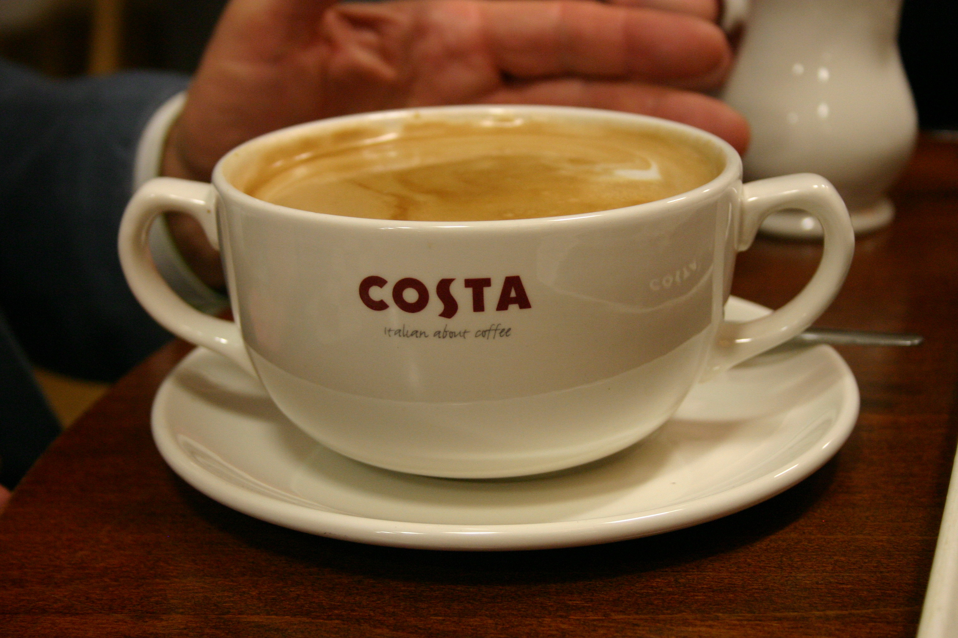 Cup of Costa coffee.